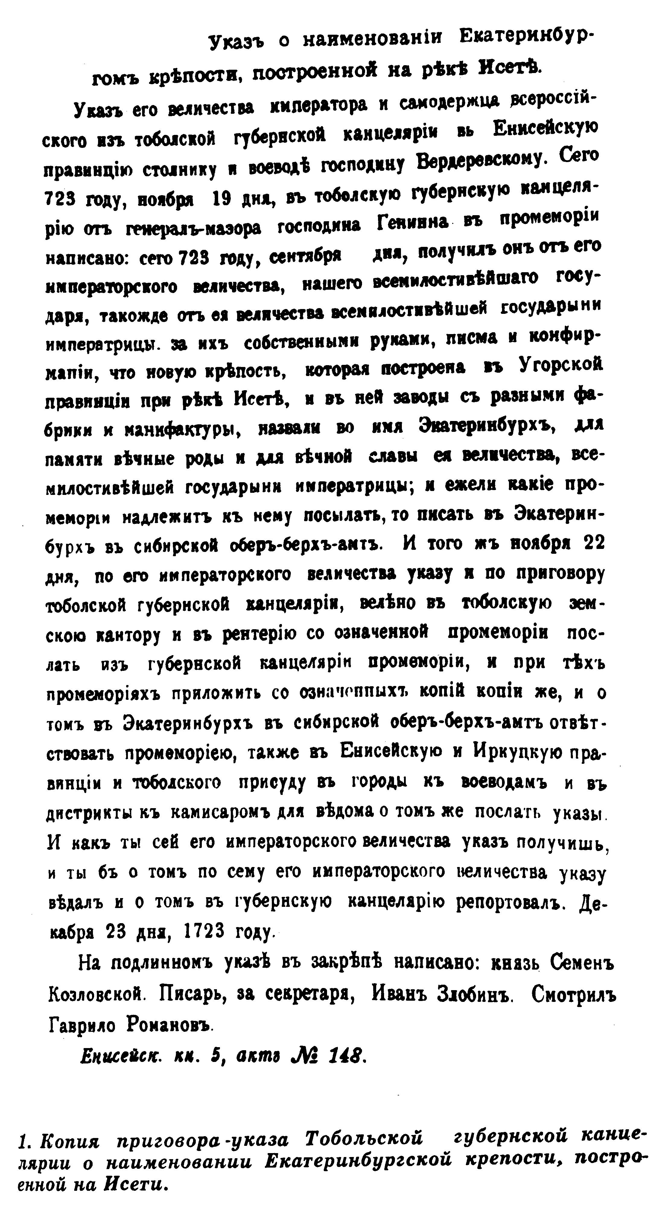 The Imperior court confirmation about titling "Yekaterinburg" 1723